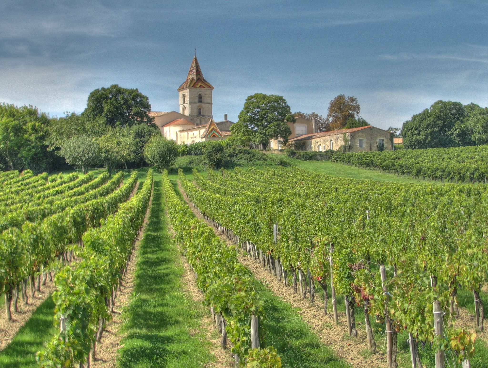 French vineyards in the Bordeaux wine region of Blaye